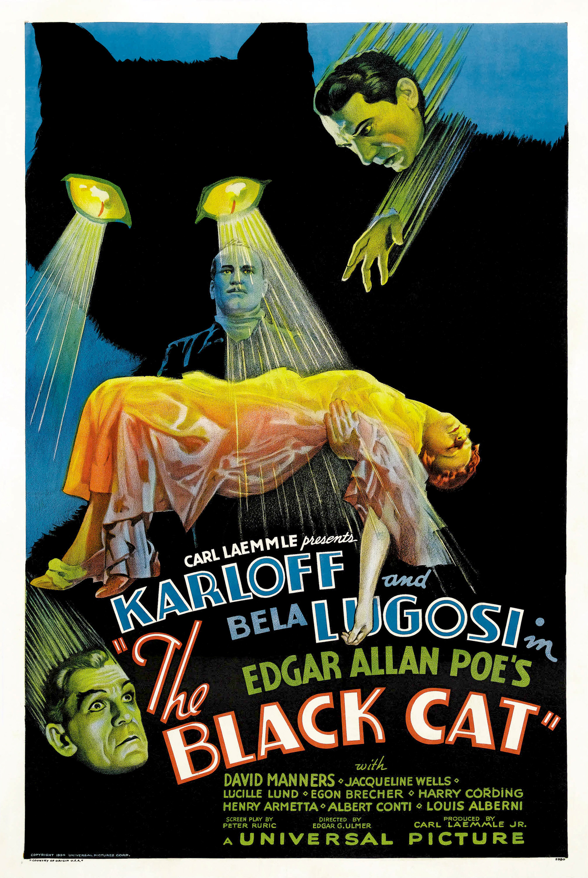 "Style D" theatrical release poster for the 1934 film The Black Cat.